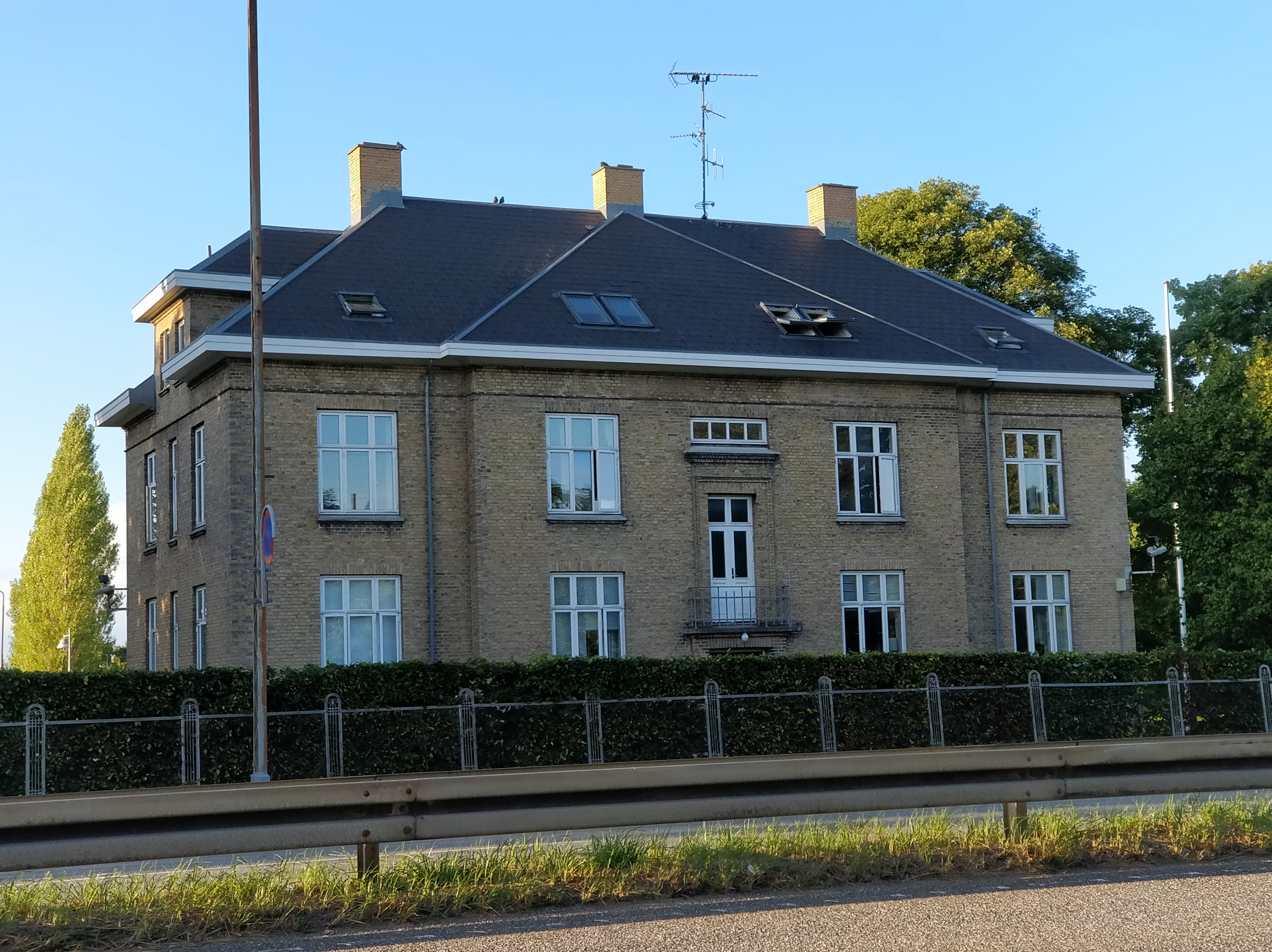 Small Amalienborg in Albertslund is an building which looks like one of the mansions of Amalienborg the residence of the Danish royal family. Lille Amalienborg i Albertslund er en bygning, som ligner et af den danske kongefamilies residens Amalienborgs palæer.